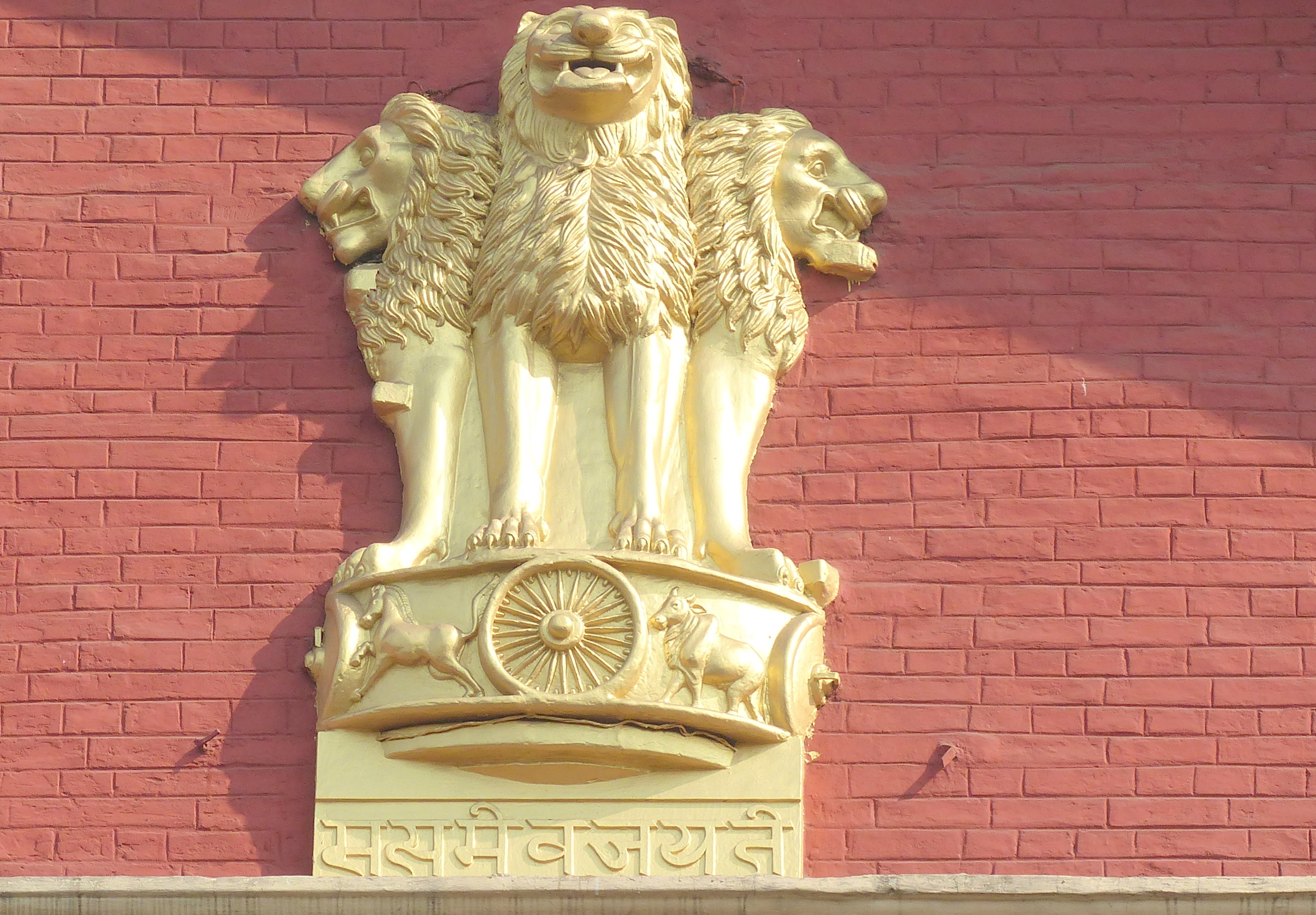 Emblem of India